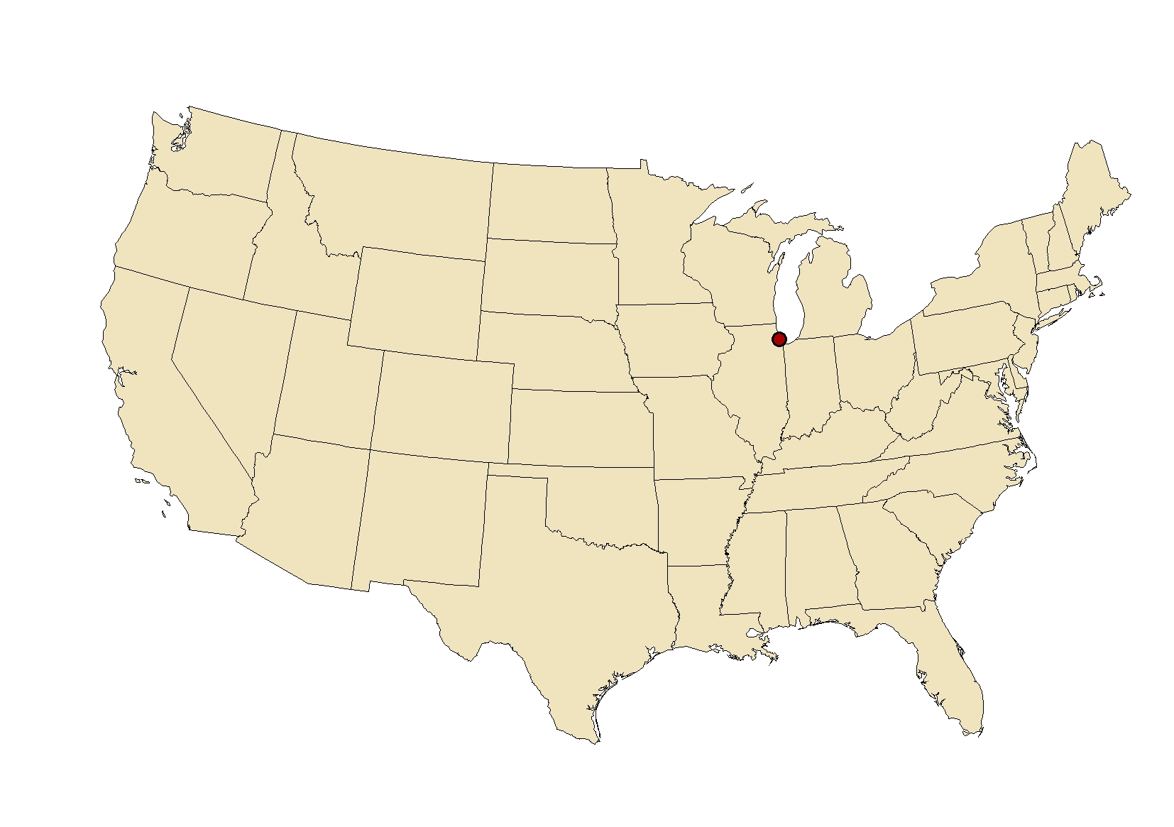 Map of Chicago